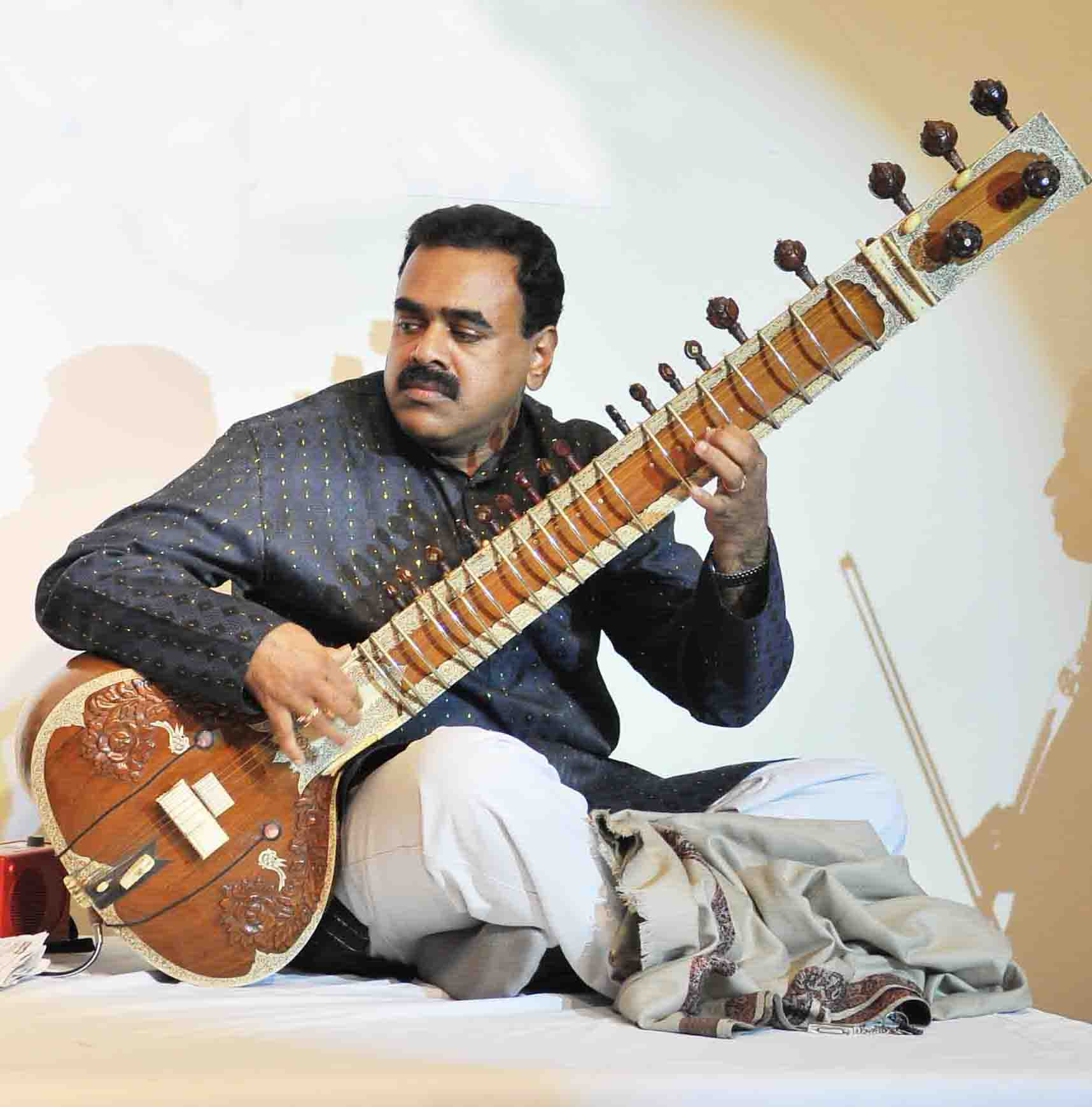 Sitarist Ahammed Ibrahim